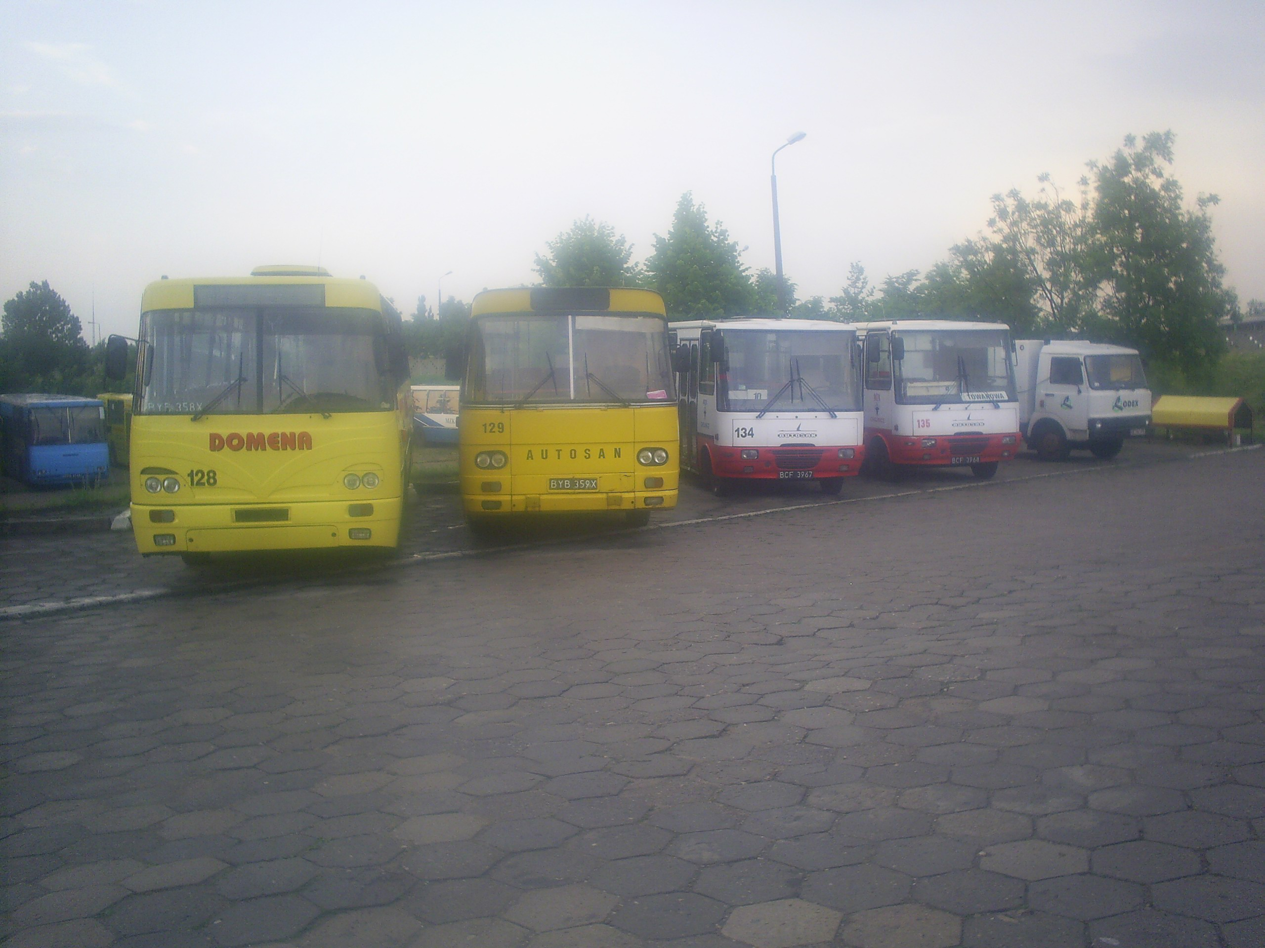 Two Autosan H9-35 buses (#128, #129 - built 1990) and two Autosan H6-20.03 buses (#134, #135 - built 1998) in Chojnice, Poland. MZK Chojnice operator.